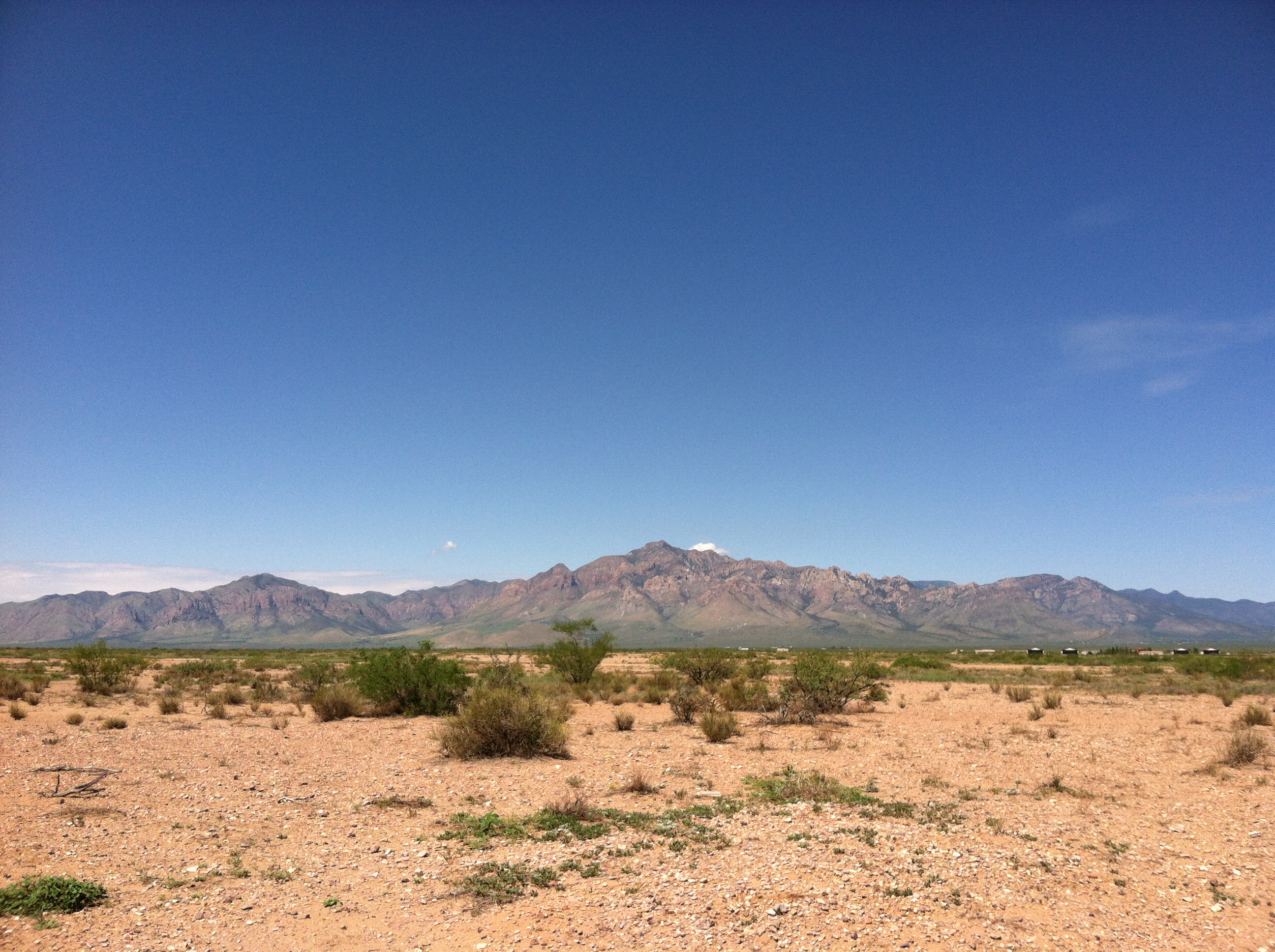 View of the Chiricahua Mountains from the Painted Pony Resort in Rodeo, NM.